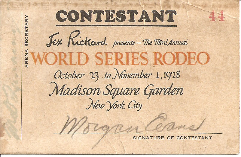 Cowboy Morgan Evans 1928 World Series Rodeo Contestant signature card